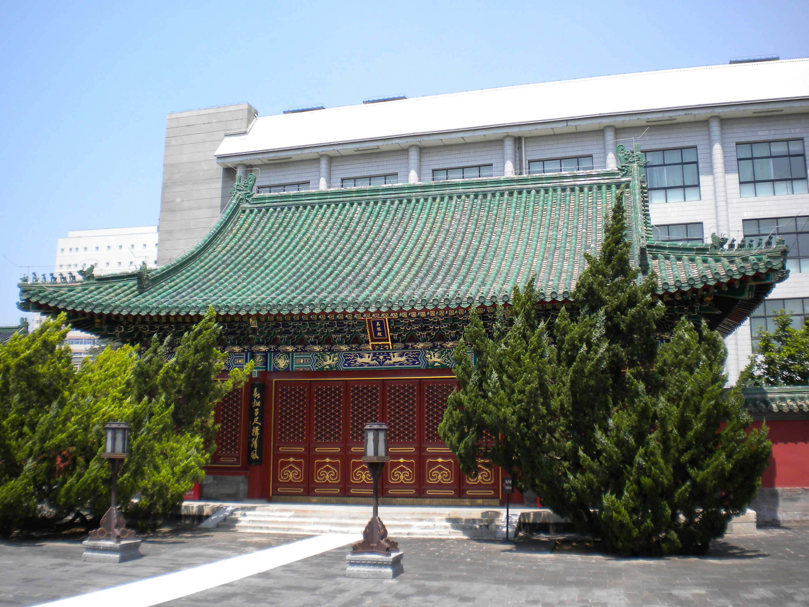 具服殿/Dressing Hall (Temple of the Moon)